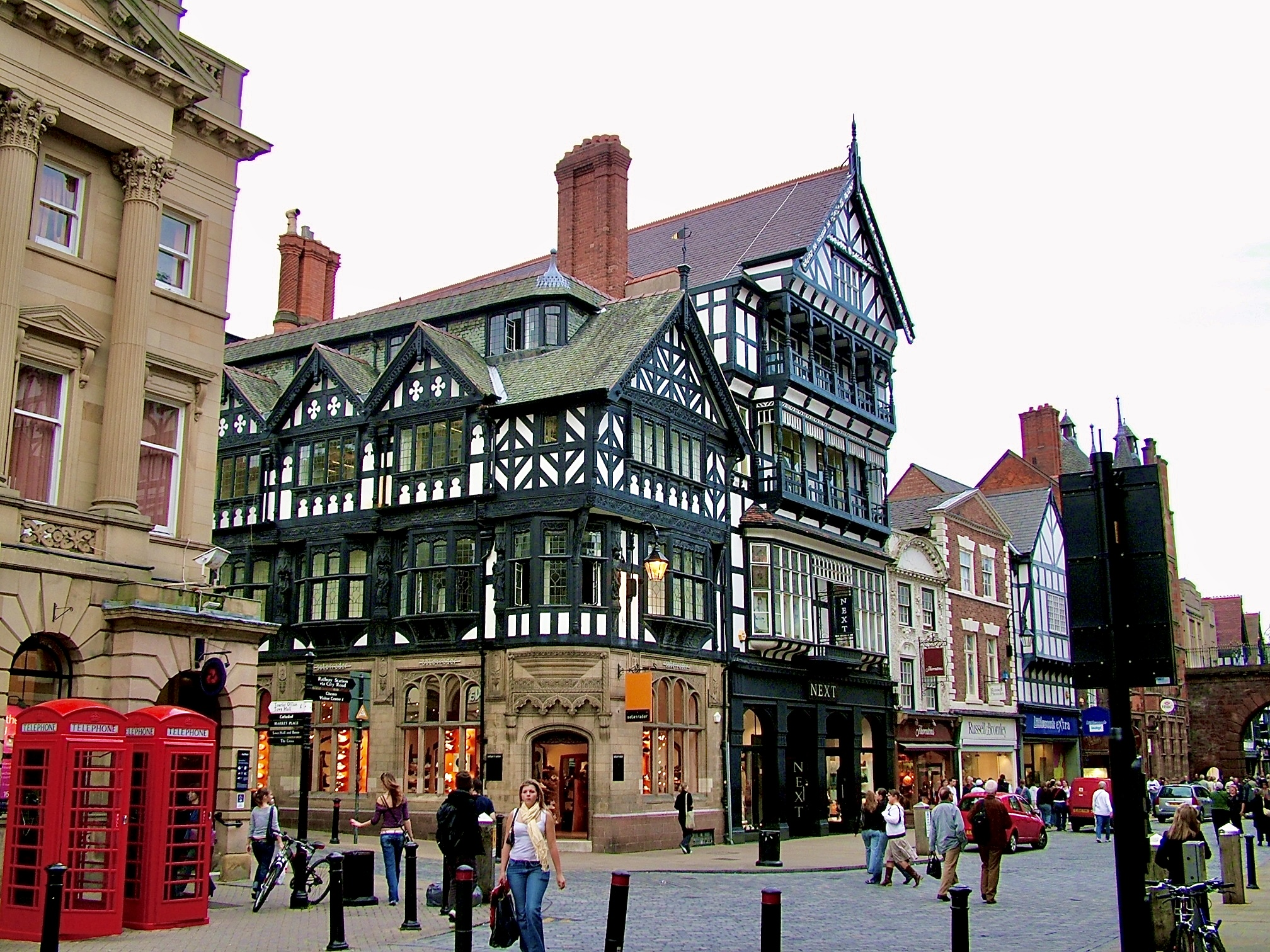 Chester shops. By and copyright Tagishsimon 9th October 2005